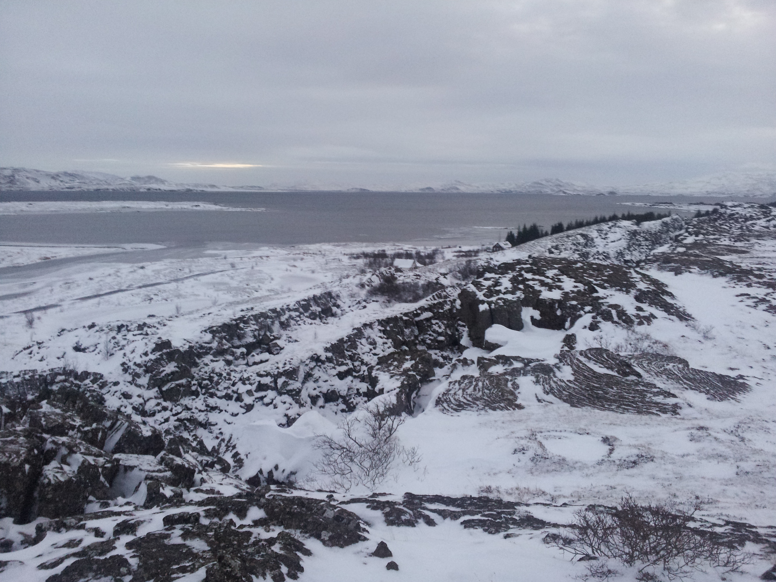 Thingvallavatn Lake